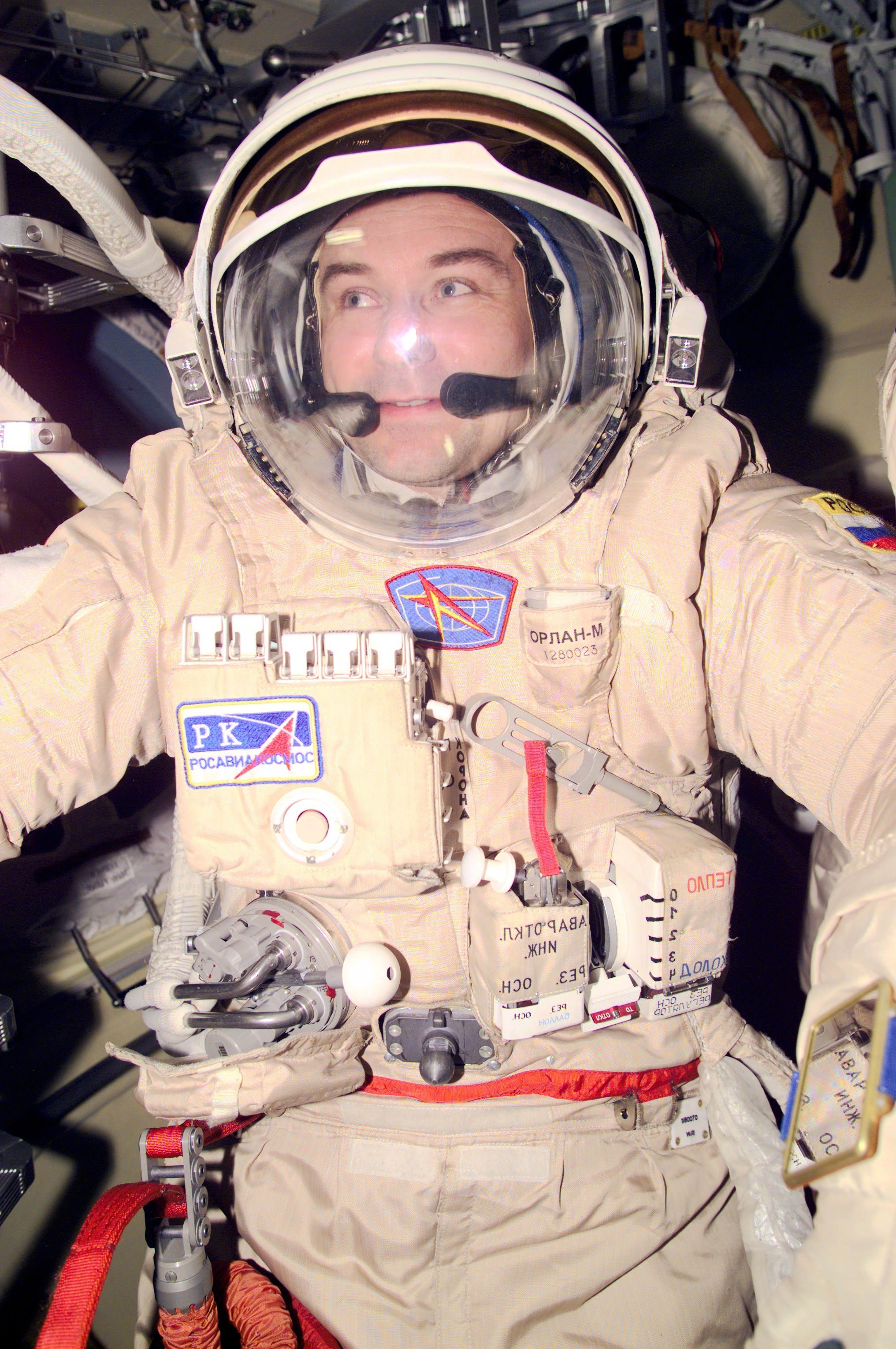 Cosmonaut Vladimir N. Dezhurov, Expedition Three flight engineer, wears the Russian Orlan space suit as he prepares for an upcoming spacewalk from the Pirs Docking Compartment on the International Space Station (ISS). The first spacewalk is scheduled for October 8, 2001 which will be the first extravehicular activity (EVA) from the station without a Space Shuttle present. Dezhurov represents Rosaviakosmos. This image was taken with a digital still camera.